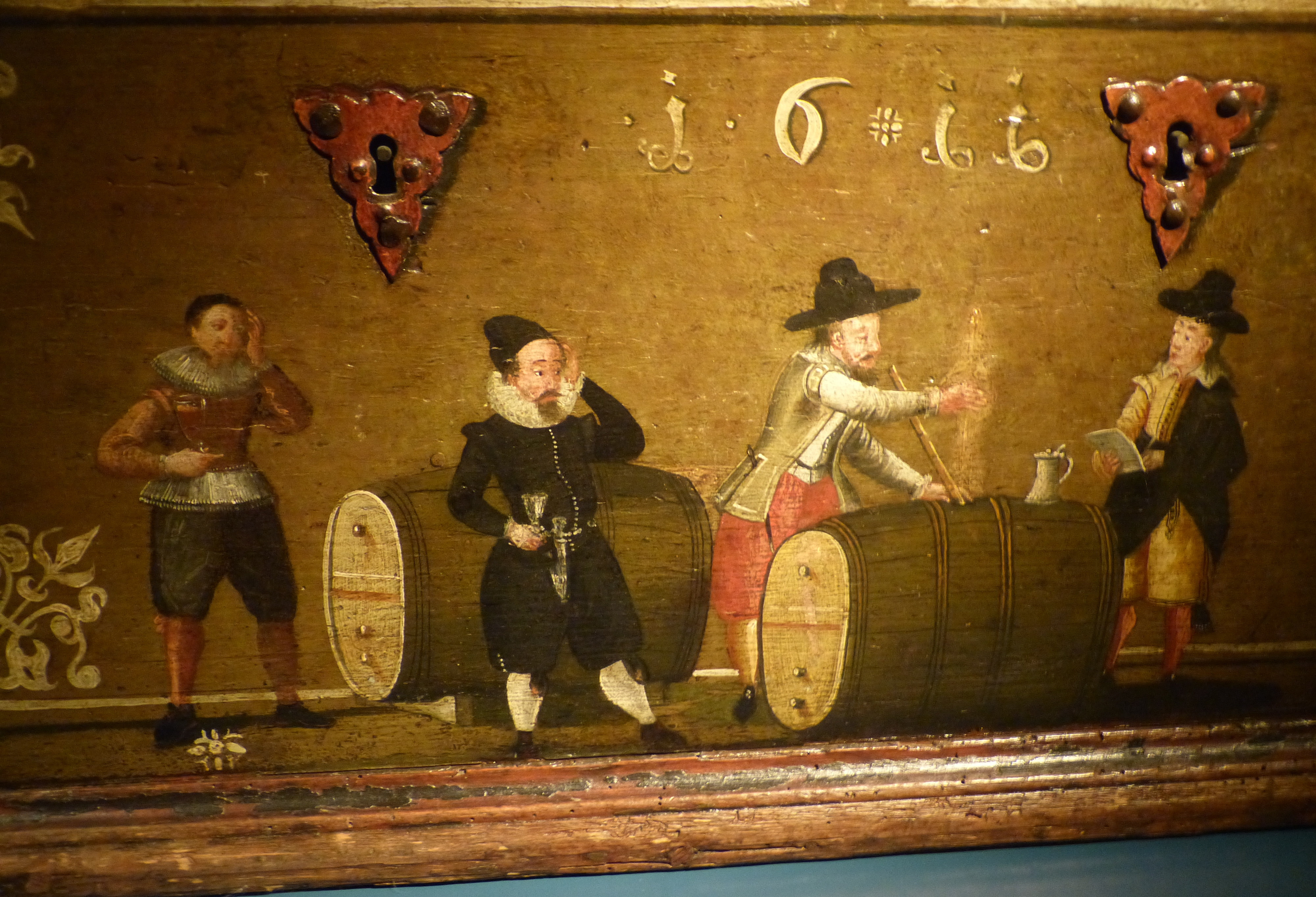 Aldersbach ( Lower Bavaria ). "Beer in Bavaria" exhibition ( 2016 ): Chest of beer tax collectors ( 1611 ) - detail: Examination .of the quality and quantity of beer ( City museum Traunstein )